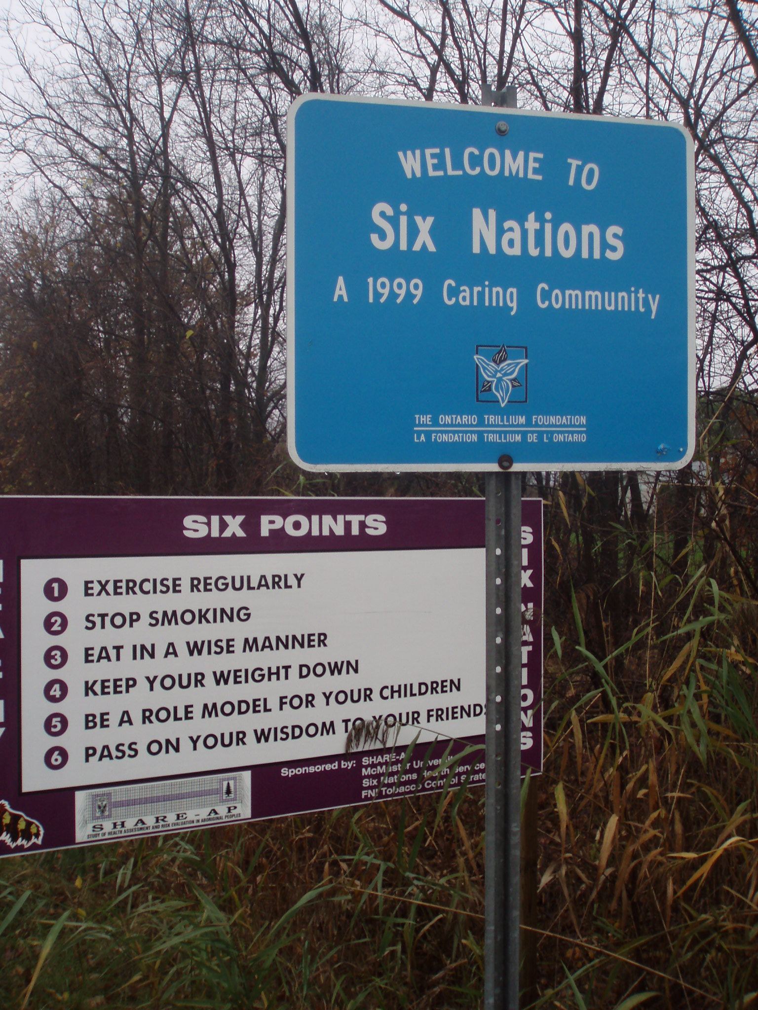 place sign of Six Nations, Ontario